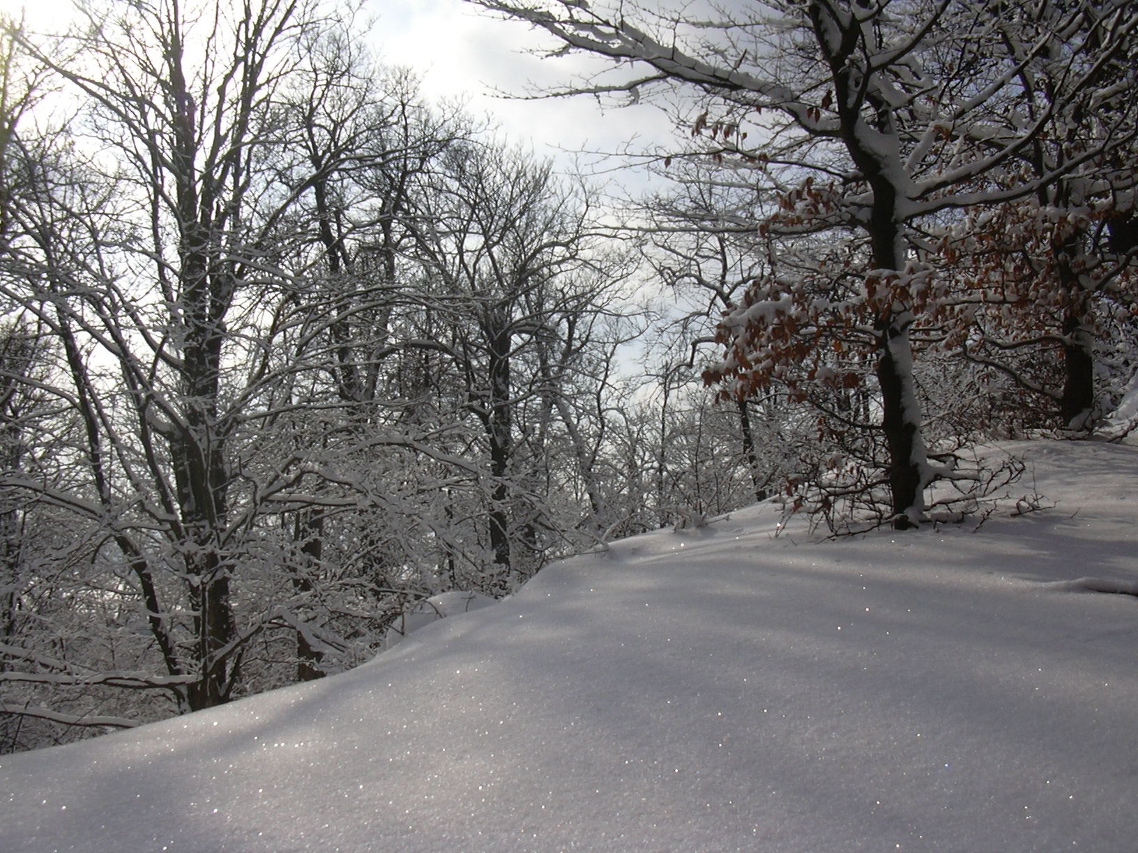 Beeches on the summit of Kuchyňka in Brdy (Hřebeny) hills